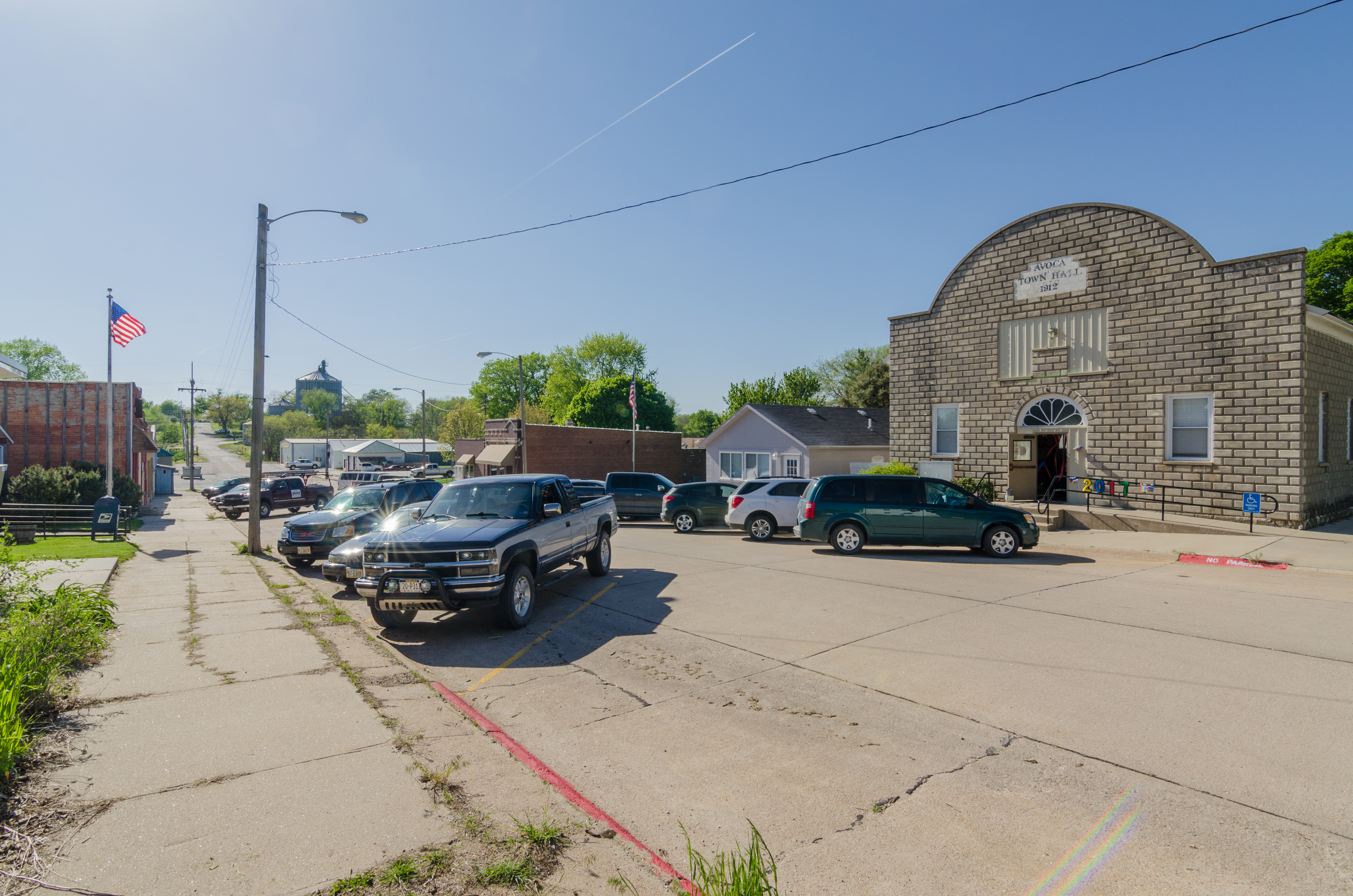 Downtown Avoca, NE